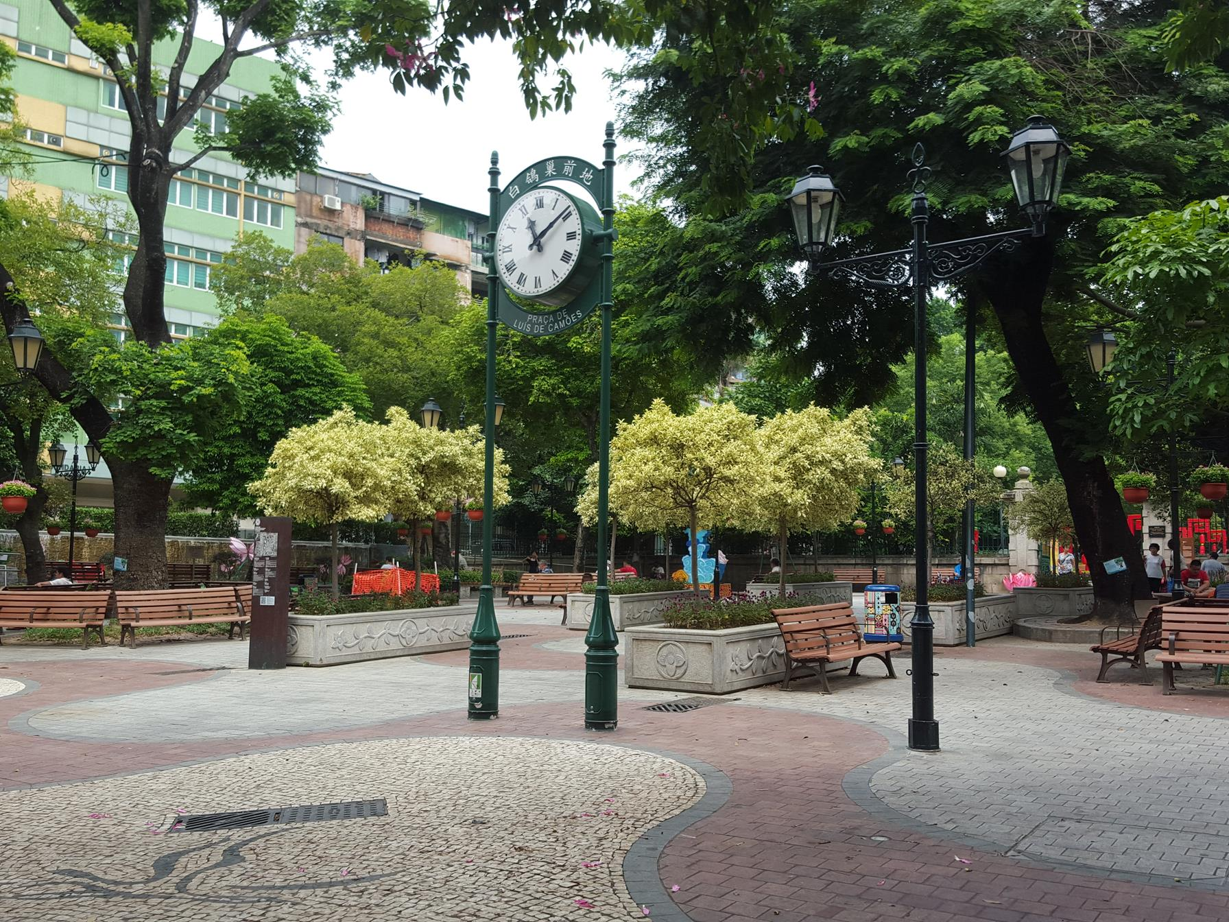 Praca Camoes